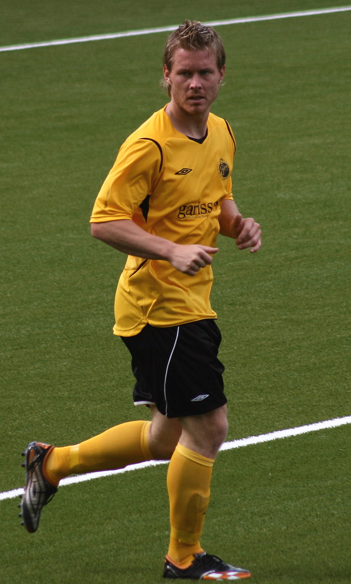 The footballplayer Fredrik Berglund in Elfsborg